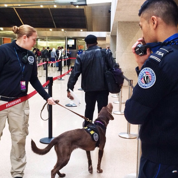 In this training scenario, TSA explosives detection canine Maggie is seen here picking up on an explosives odor coming from the traveler’s backpack. Maggie and her handler work at the Washington Dulles International Airport (IAD).